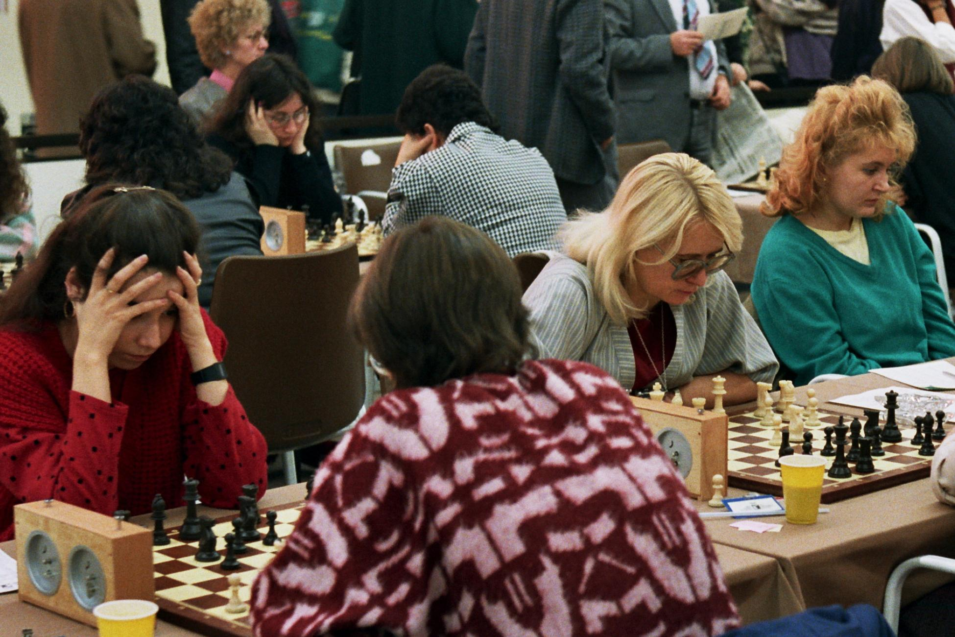 Poland (Brustman, Erenska, Wiese), Chess Olympiad 1988 in Thessaloniki, Photographer Gerhard Hund.